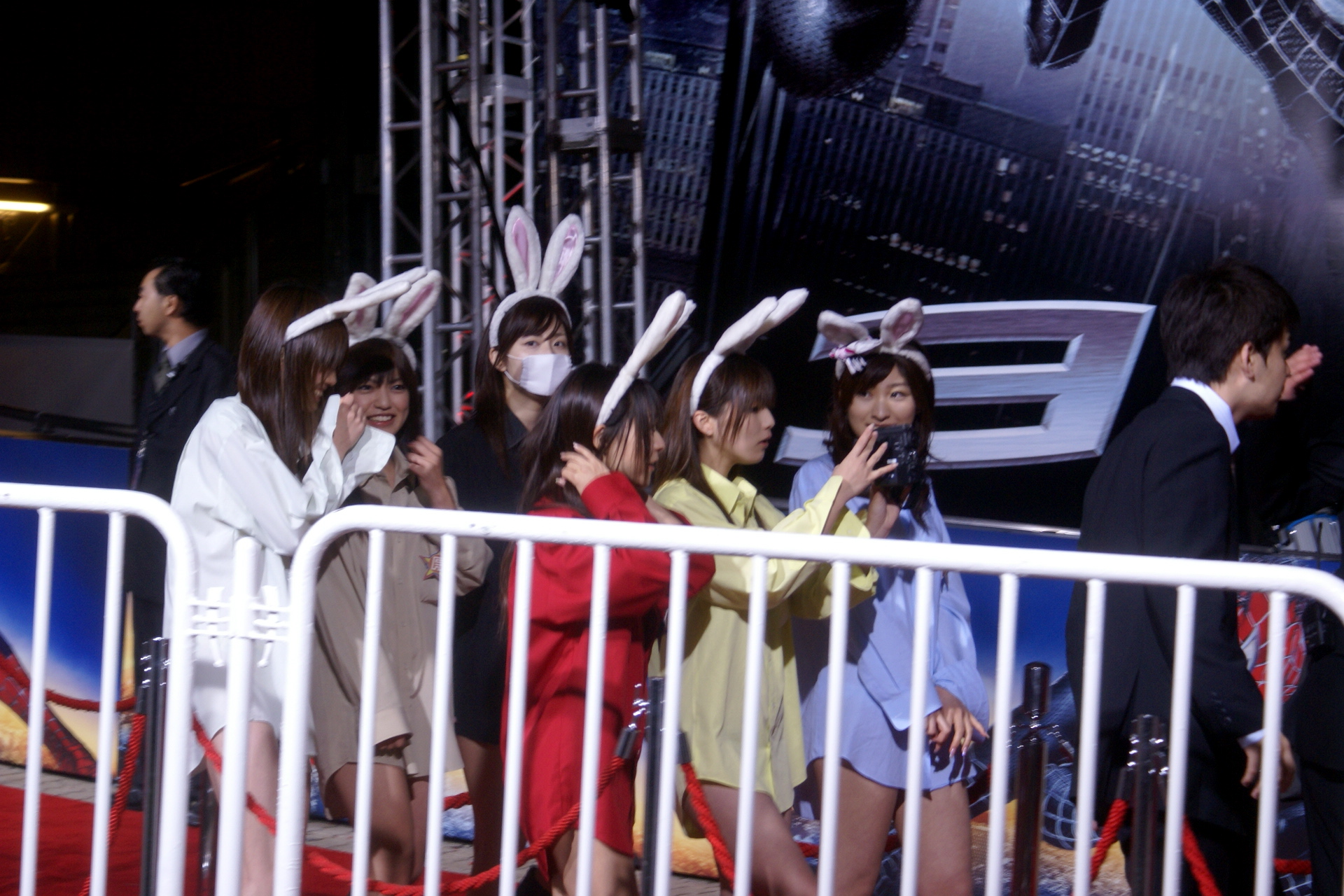 tenalp driht ☆ eht fo lodI was a Japanese variety show aired on Nippon Television.